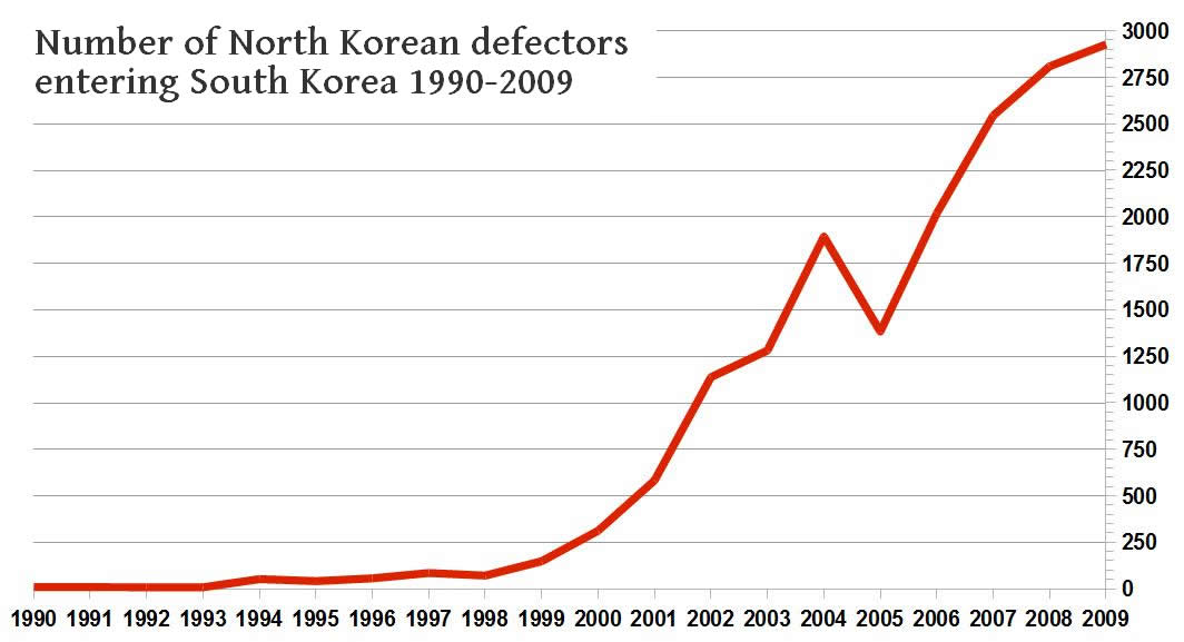 Defectors from North Korea arriving in South Korea (since 1990).